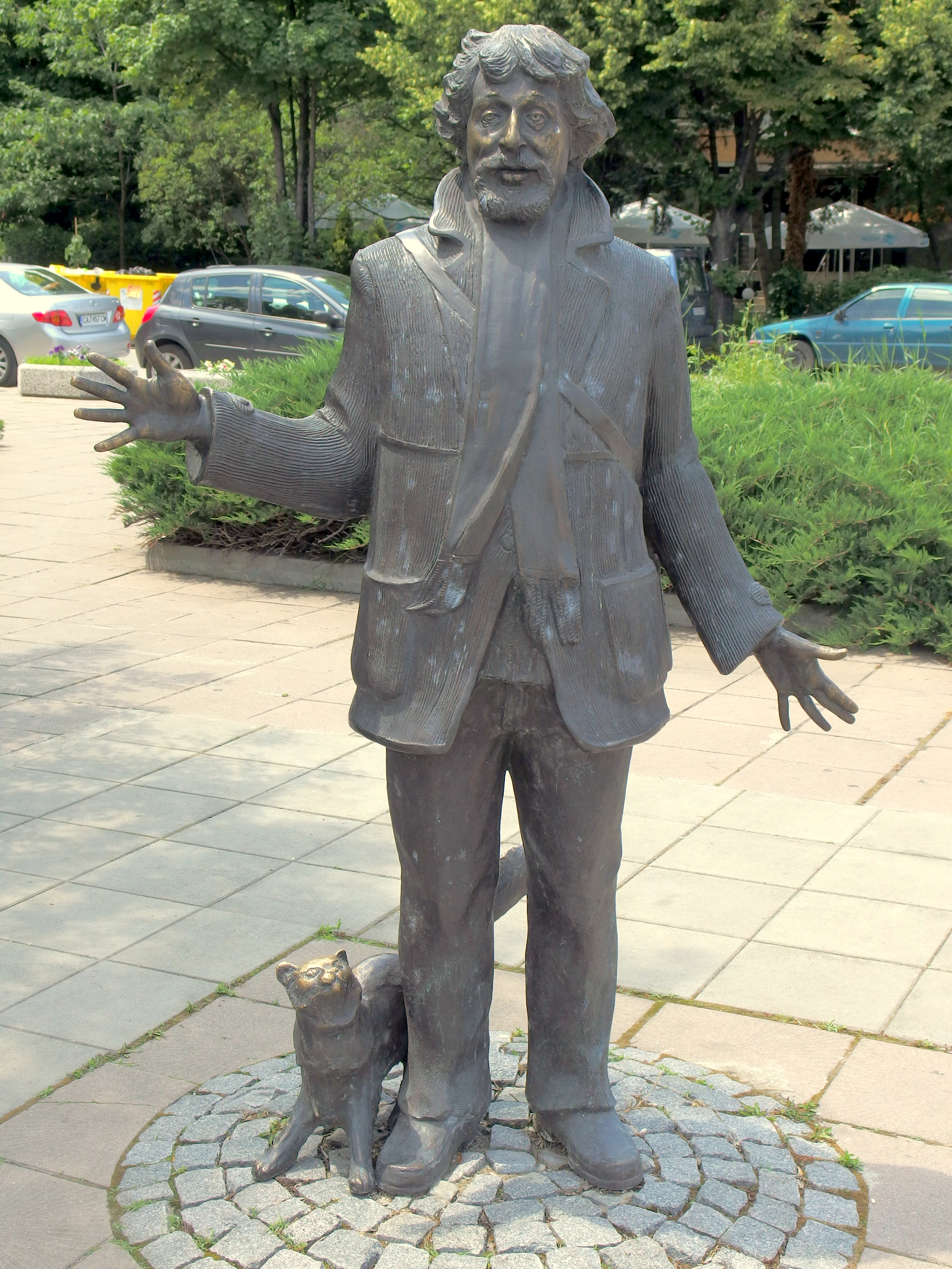 2014-06-15 in Sofia.